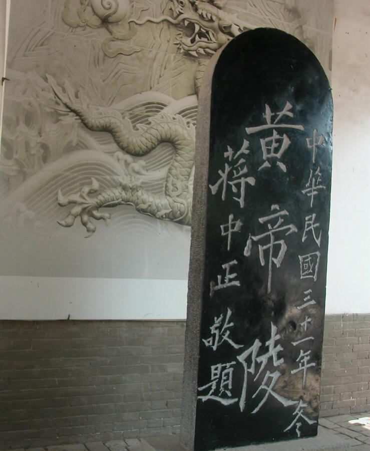 Mausoleum of the Yellow Emperor